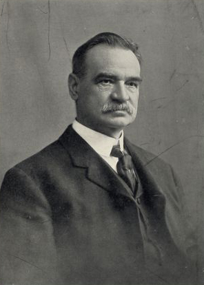 Al Reach